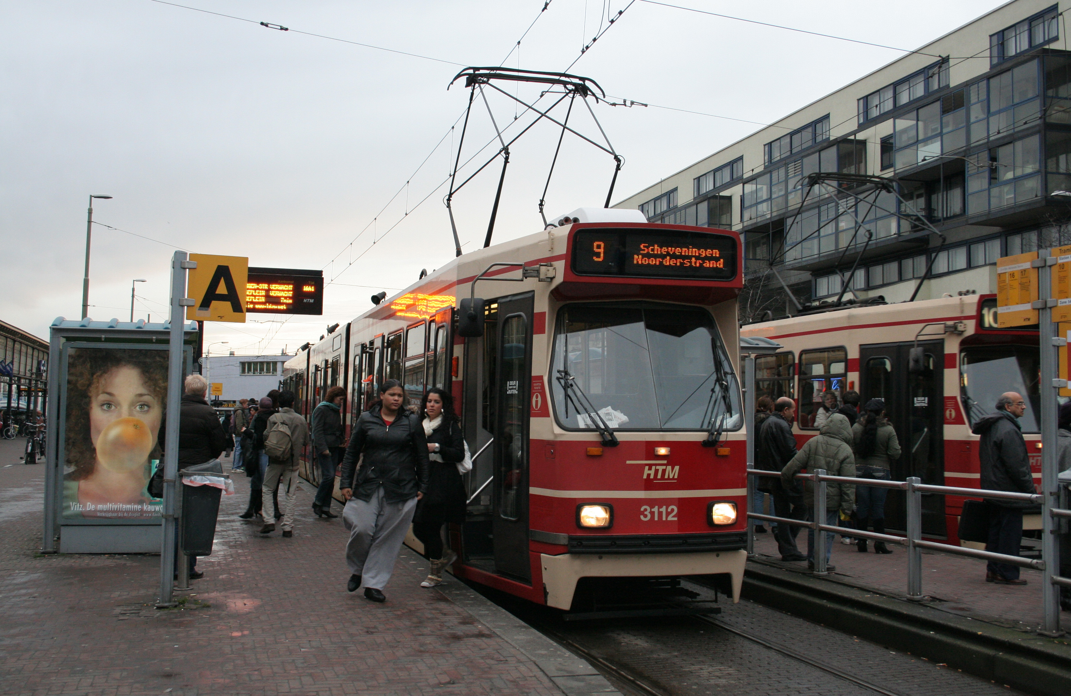 Tram in The Hague by HS station stop.